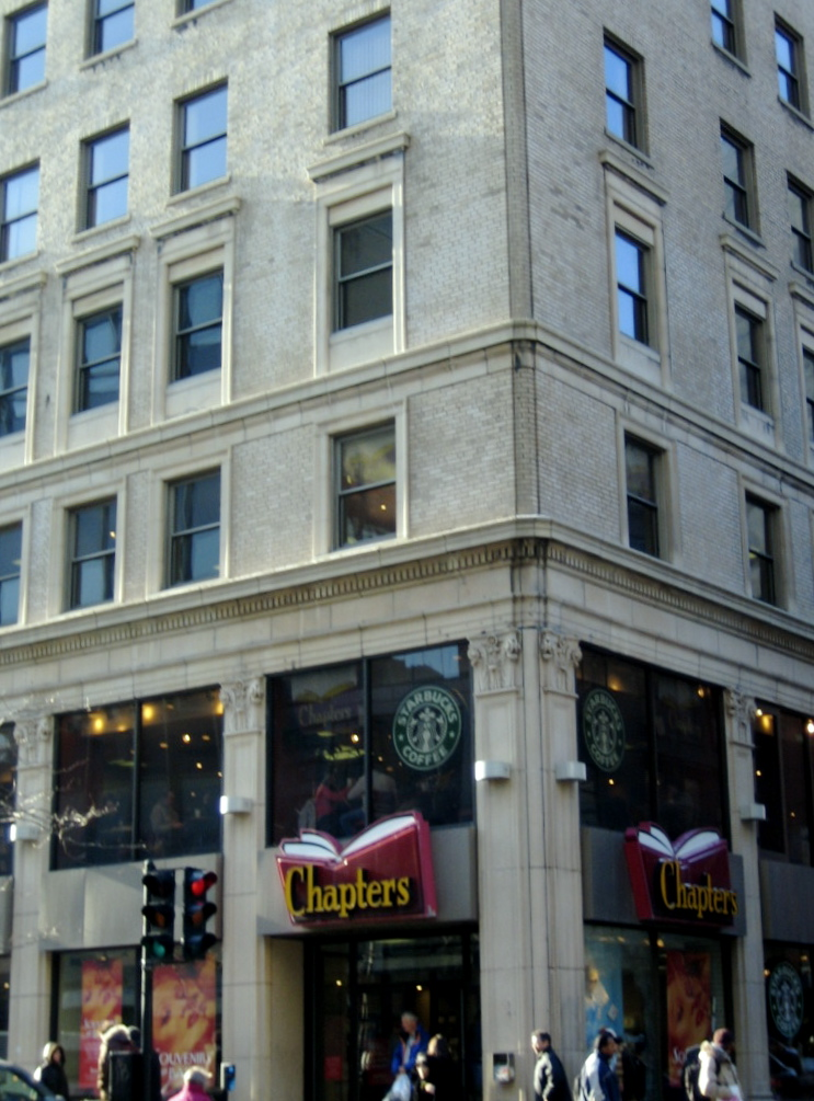 Chapters bookstore and Starbucks cafe, downtown Montreal, corner of Stanley and St-Catherine St.